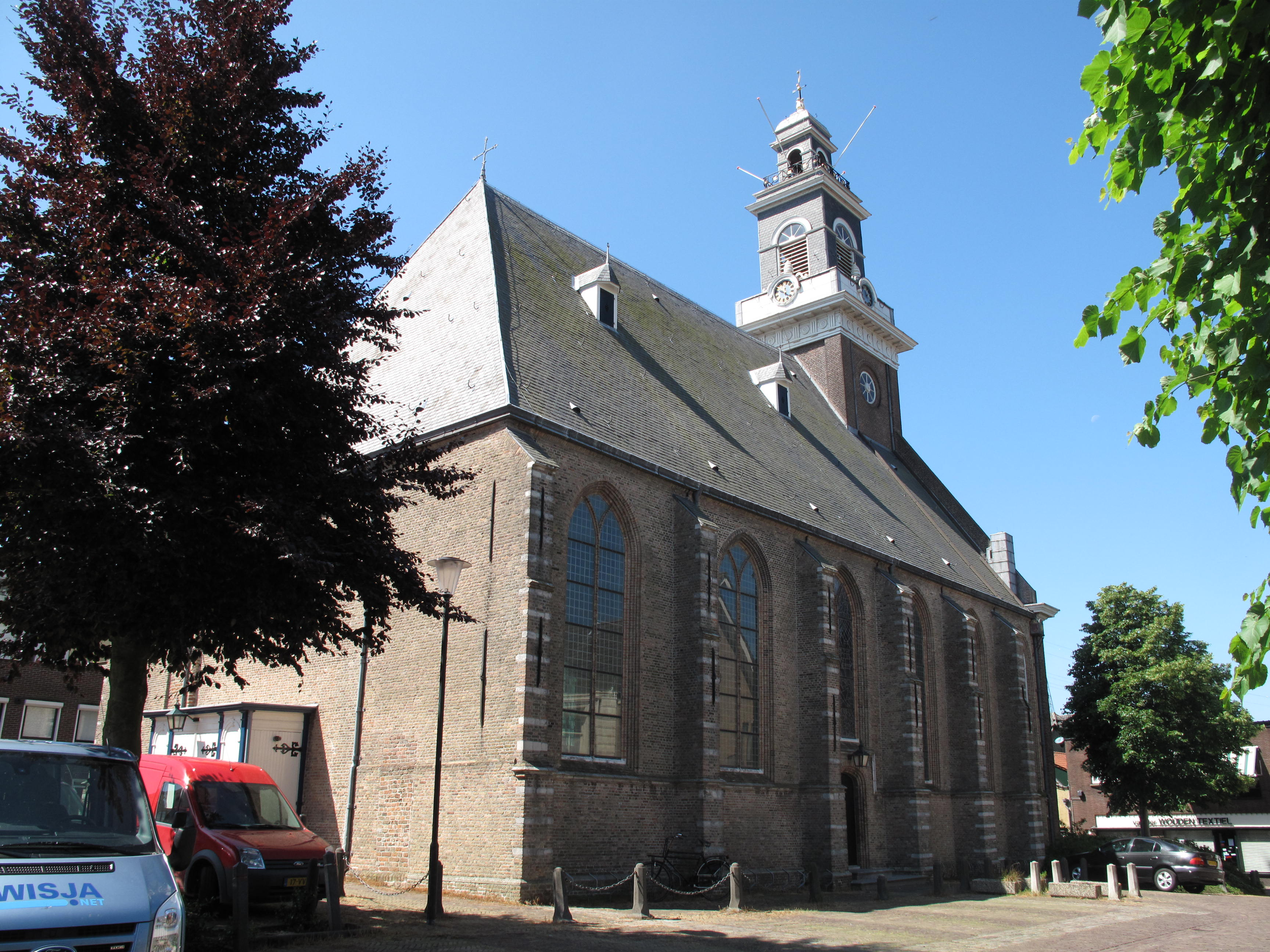 Lekkerkerk, church: Grote of Johanneskerk